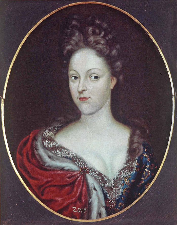 Portrait of Princess Eleonore Juliane of Brandenburg-Ansbach (1663-1724), wife of Frederick Charles, Duke of Württemberg-Winnental